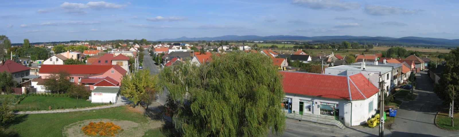 North - eastern view on Zohor, Slovakia, okt. 2006 author:Juloml